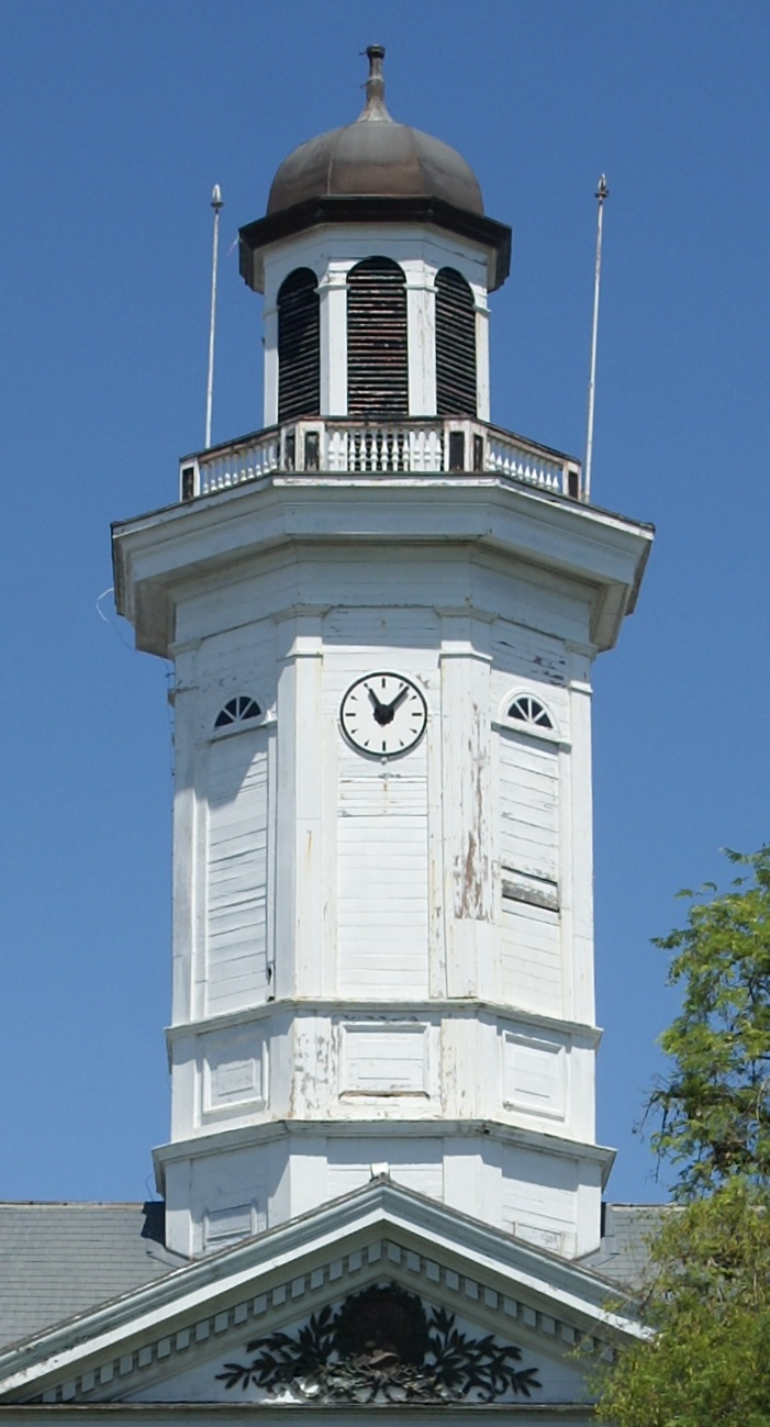 Onafhankelijkheidsplein 2, Paramaribo, Surinam. Tower.